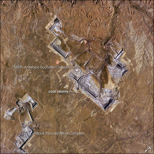 The United States’ highest rate of coal production is in Wyoming, with almost 400 million short tons extracted in 2004. The majority of this coal is burned to generate electrical power within the United States, but a small percentage is also goes to Spain and Canada. The Powder River Basin in the northeastern portion of the state is the most productive of Wyoming’s coal fields. The extensive coal deposits - ranging in thickness from 21 to 53 meters (70 to 175 feet) - formed over 38-66 million years ago. The source of organic material for the coal originated in swamps, estuaries, and deltas associated with the regression (retreat) of a large inland seaway that occupied central North America during the Cretaceous Period, which spanned the years between about 144 to 65 million years ago. Open-pit strip mining is the technique that coal operators prefer for removing the sparsely vegetated surface (overburden in mining terminology) of northeastern Wyoming that covers the coal seams. One of the largest of these mines, Peabody Energy’s North Antelope Rochelle Complex, is located at the center of this astronaut photograph. A portion of Arch Coal’s Black Thunder Mine Complex is visible to north. Active coal seam faces are visible as black lines, and the stepped benches along the sides of the pit allow access for trucks carrying coal and overburden from the mine. Large draglines and shovels remove the overburden and expose the coal seam; blasting reduces the coal to loadable fragments. The coal is then transported from Wyoming by up to 2000 rail cars per day. Following removal of the coal, mining companies are required by federal law to reclaim and revegetate the former mine workings.